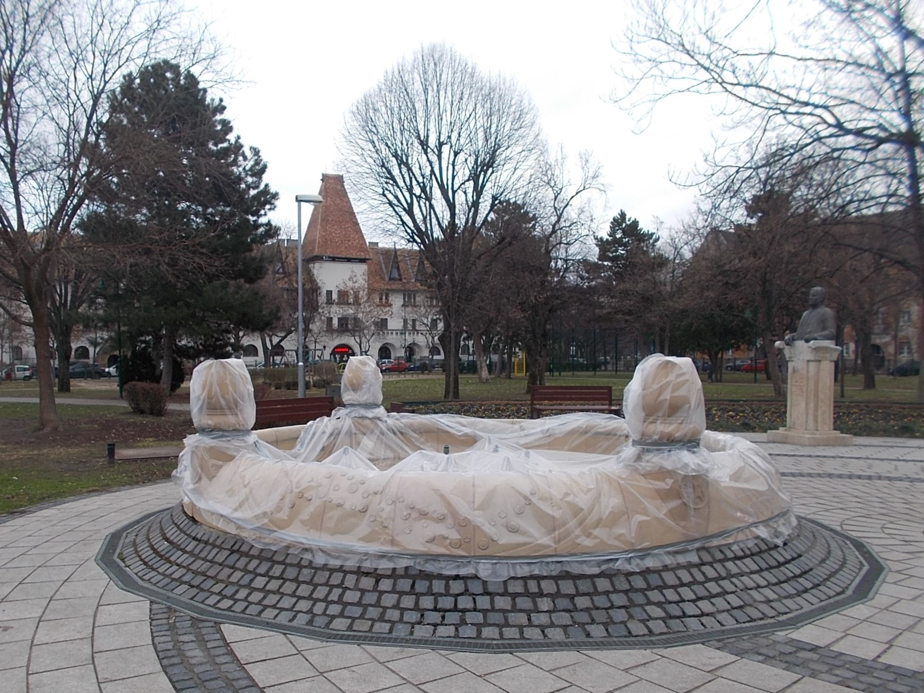 Wrapped ceramic fountain (Éva Ambrus, Ágota Móra, Kristóf Bihari, Anna Eplényi (designer), 2010) and bust of Sándor Wekerle by László Péterfy (2008 bronze) - Kós Károly tér Park, Wekerletelep, 19th district of Budapest.